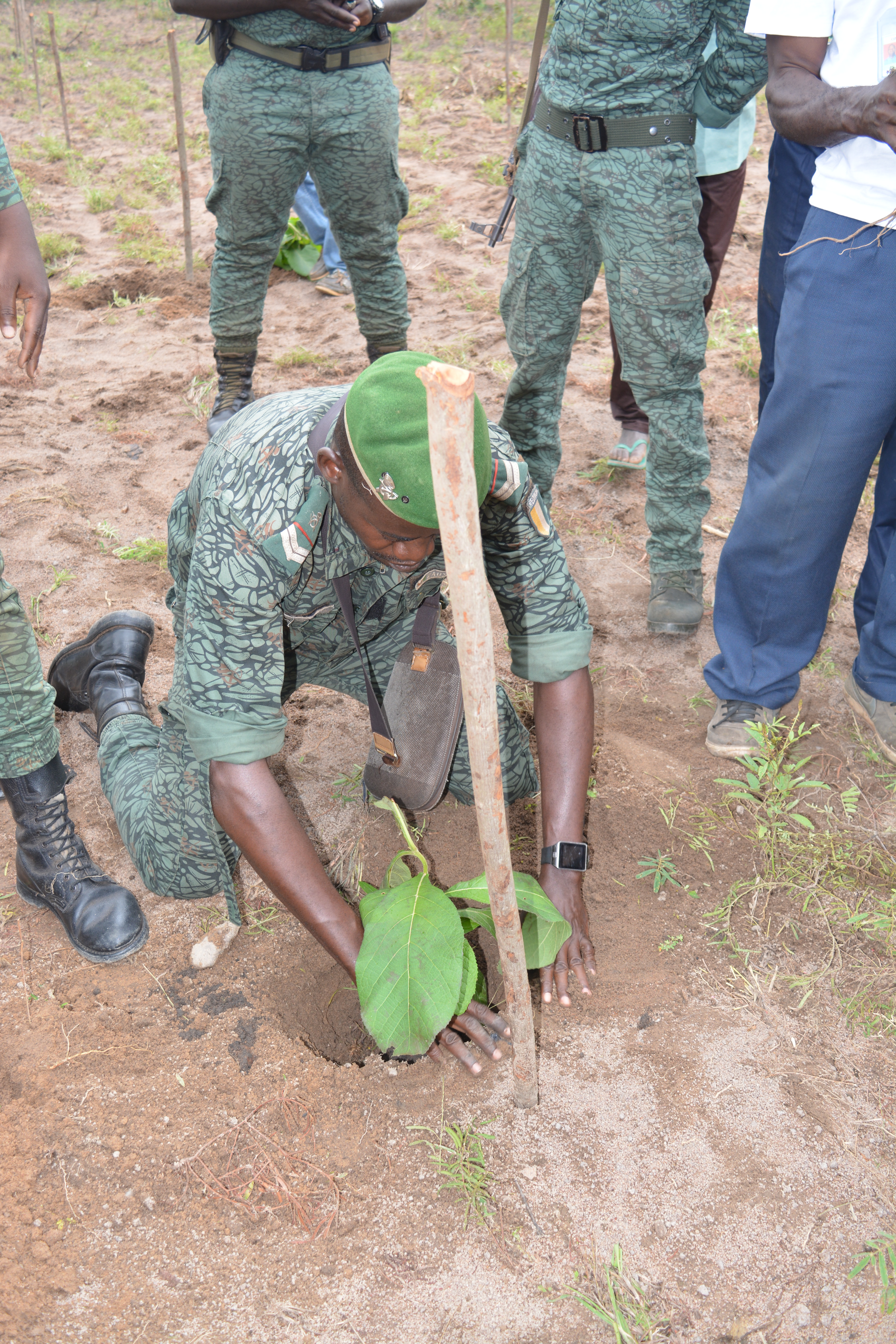 des agents des eaux et forêts prenant part à une activité de reboisement dans le nord de la Côte d'Ivoire This is an image of "African people at work" from Ivory Coast